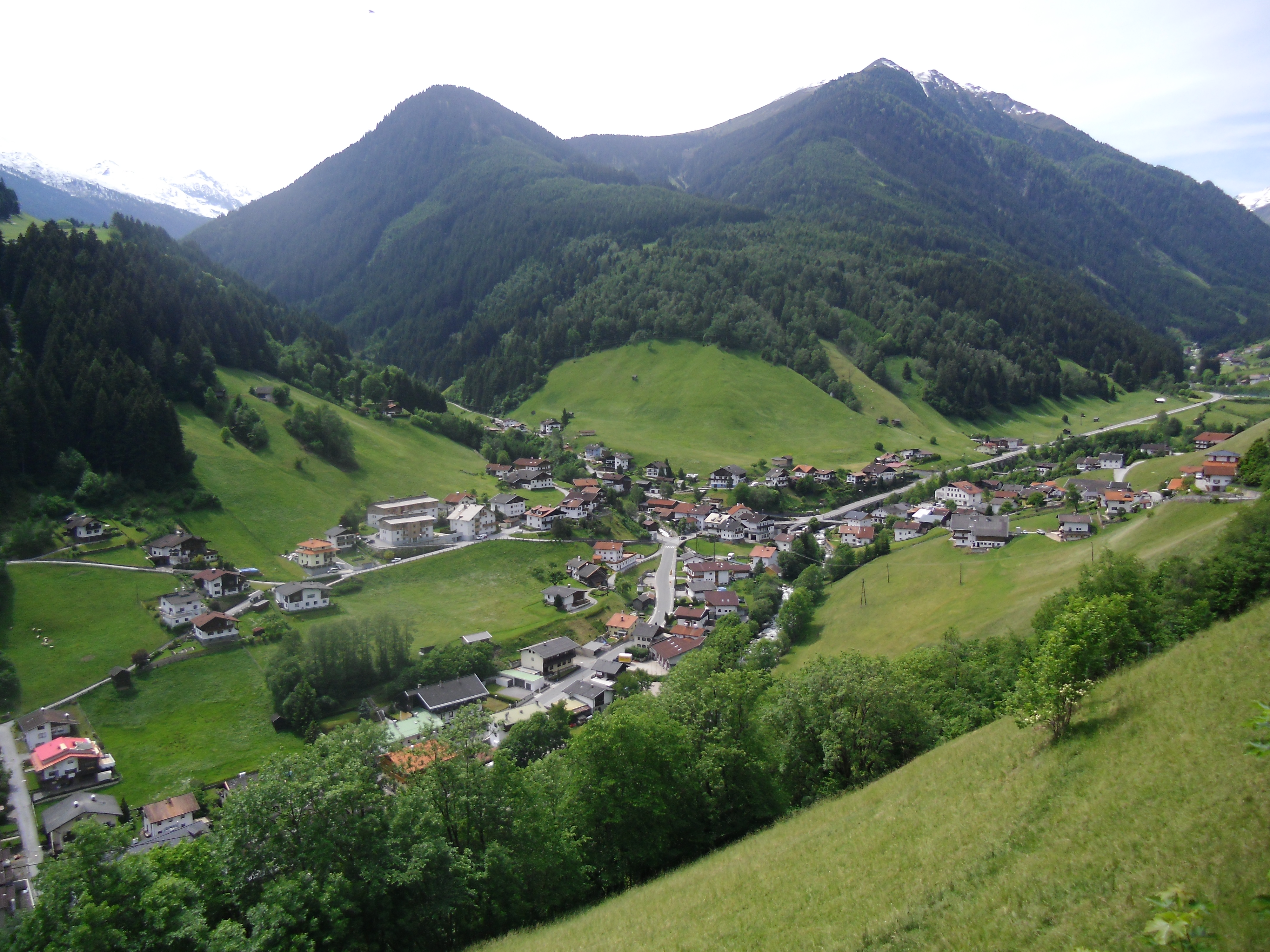 Gemeinde Sellrain with Rauer Kopf and Windegg